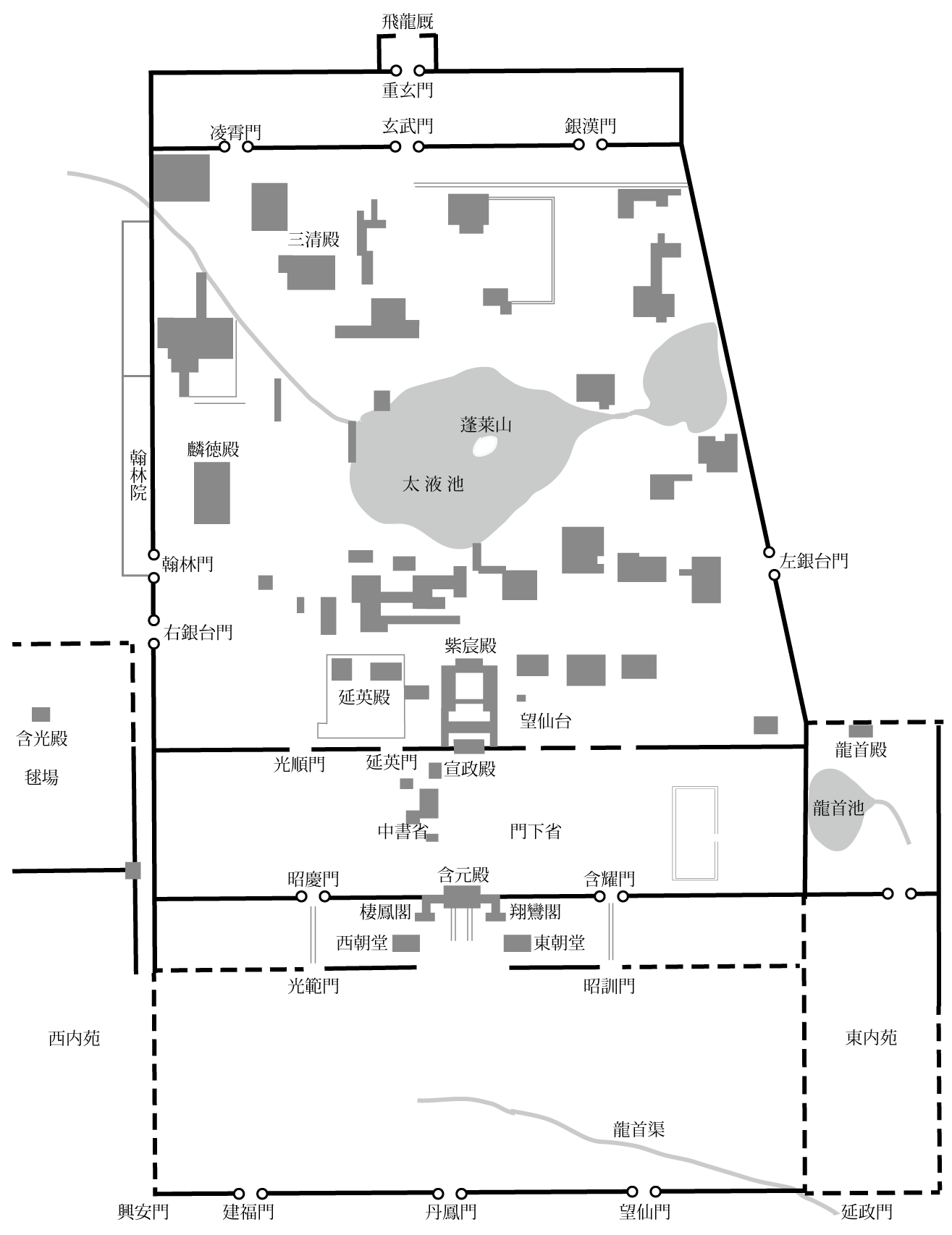 Ruins of Daming Palace (Xi'an, China)